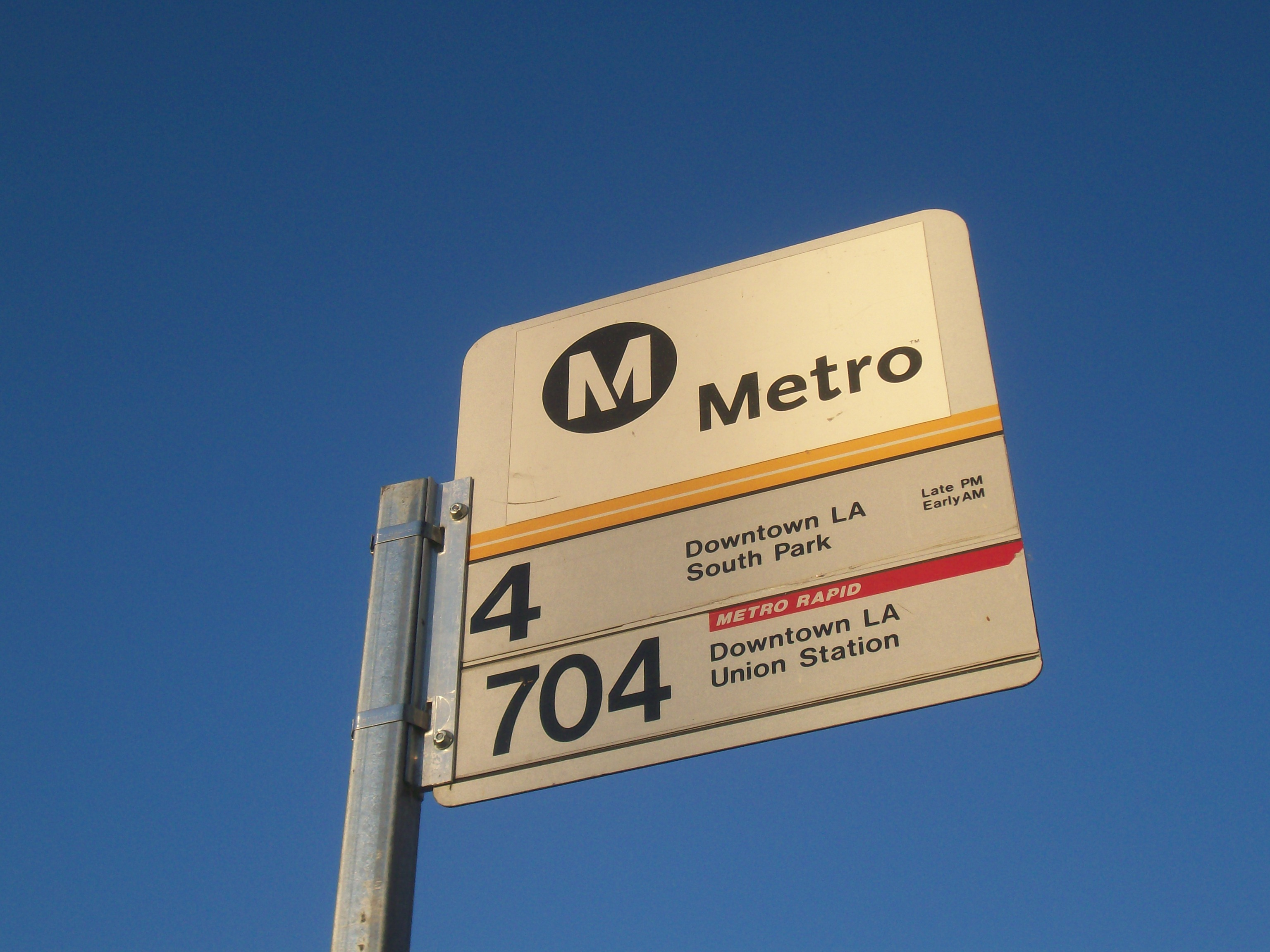 Metro Local/Rapid bus stop for lines 4 and 704 at Santa Monica Blvd./26th St., Santa Monica, California.